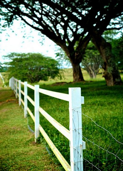 University Agriculture Park